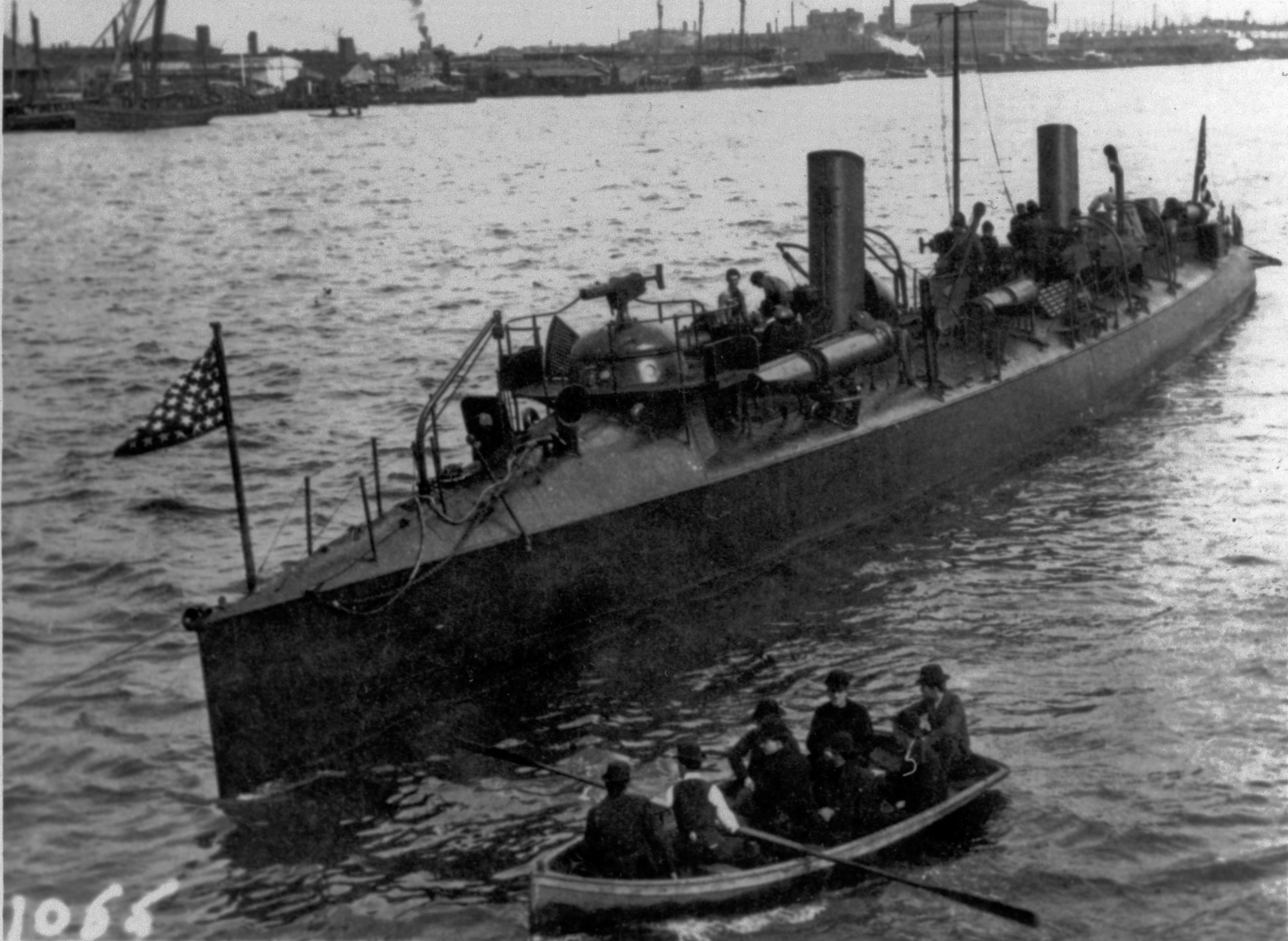 USS Winslow (TB-5) photographed circa 1898, with a small water taxi rowing past her bow. Courtesy of Jack Howland, 1985. U.S. Naval History and Heritage Command Photograph.